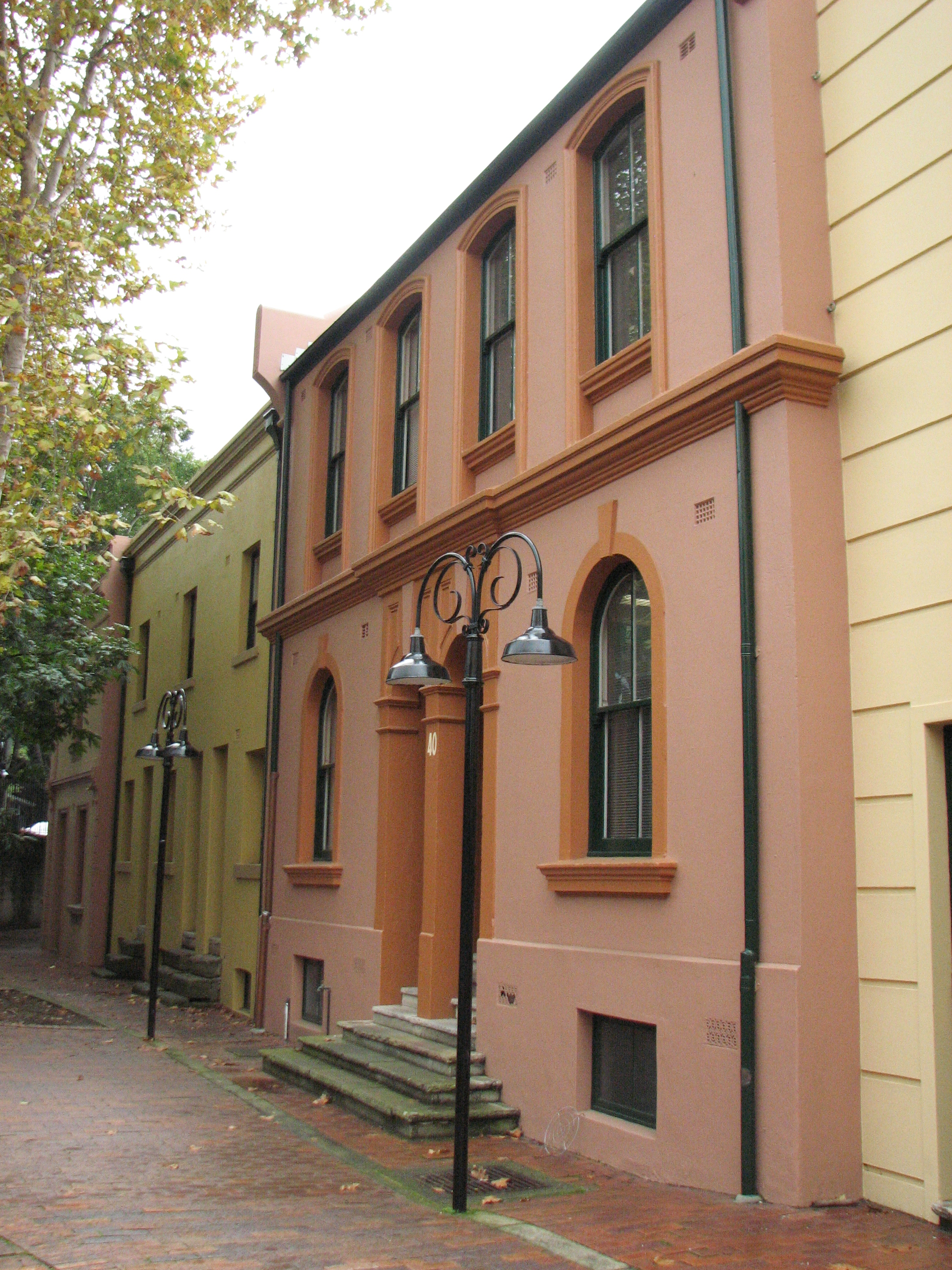 32-36 and 38-40 Gloucester Street facades, The Rocks is a row of terrace houses which is listed on the New South Wales State Heritage Register